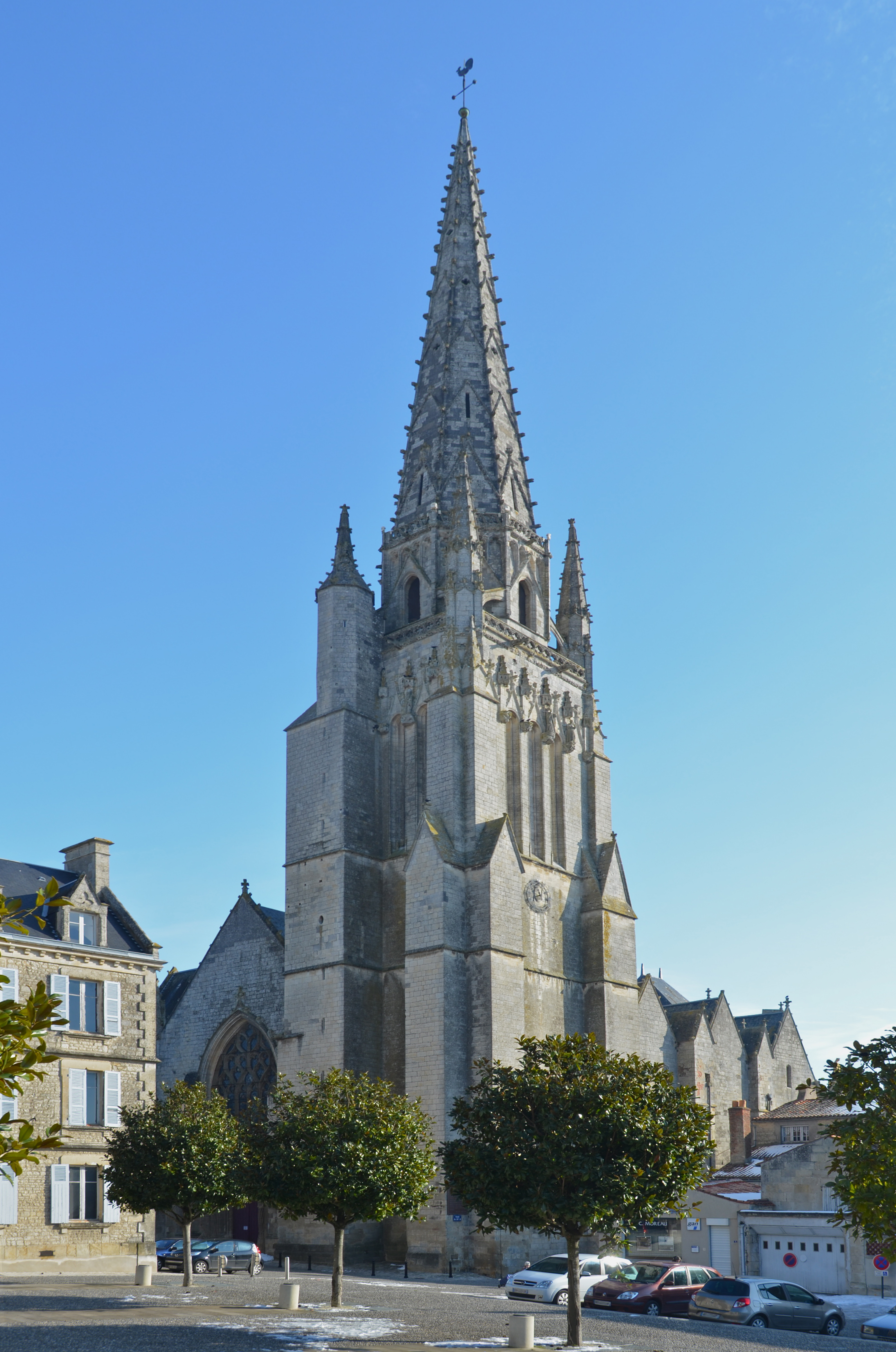 Notre-Dame church - Fontenay-le-Comte (Vendée, France)